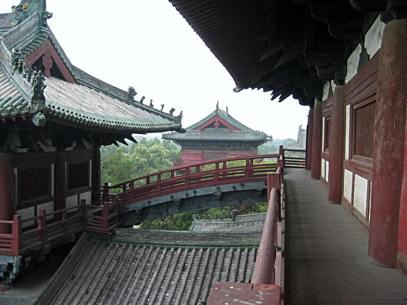 Photograph of Longxing Monastery, Zhengding, Hebei Province, China. The picture was taken on the July 18th, 2004 from the outer balcony of the Main Hall (Da Bei Ge) by Rolf Müller.